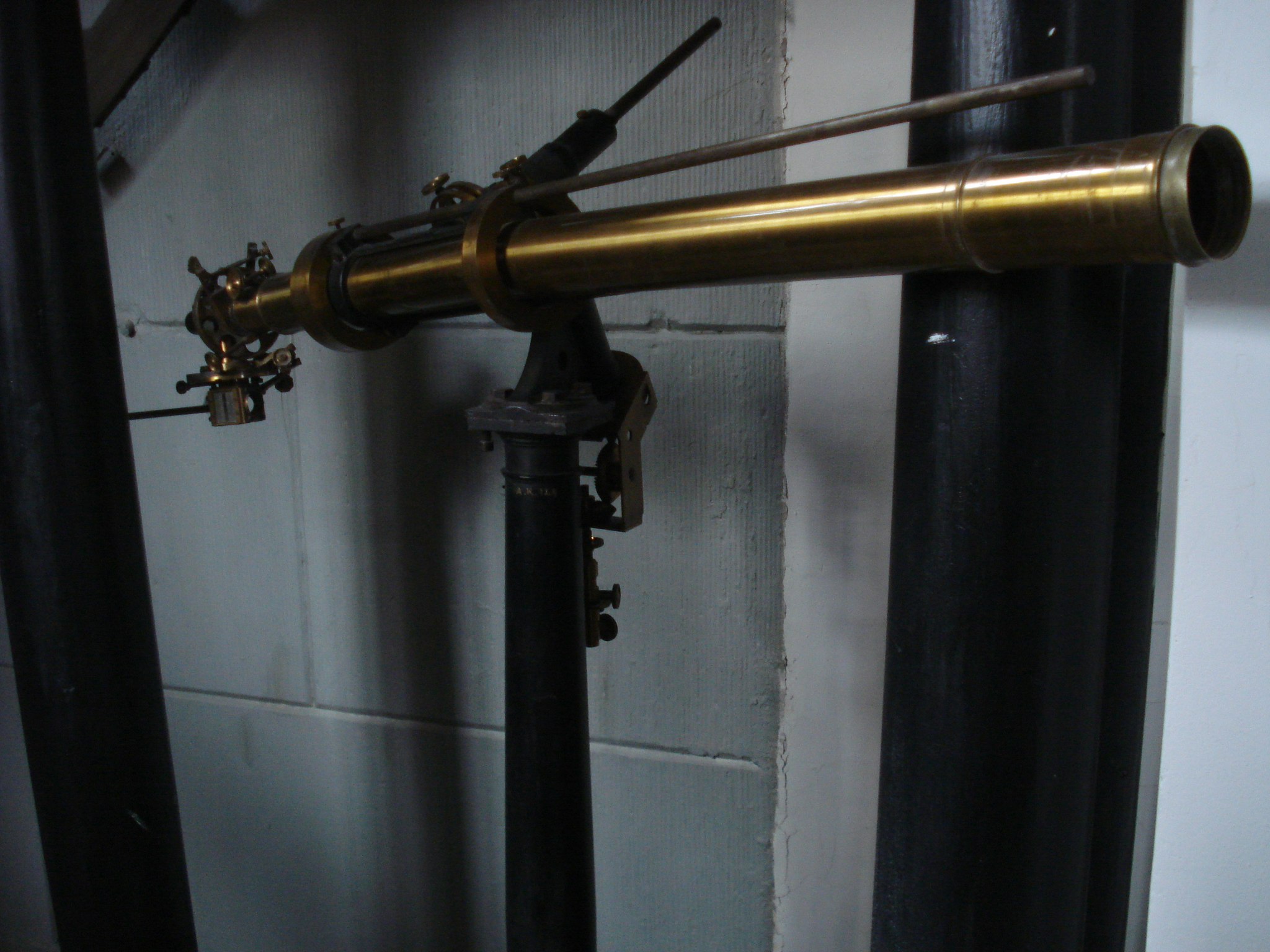 Old Photometer of Vilnius astronomic observatory. 1868. White hall of the Vilnius university library. Vienas iš keturių F. Šverdo fotometrų (1868)